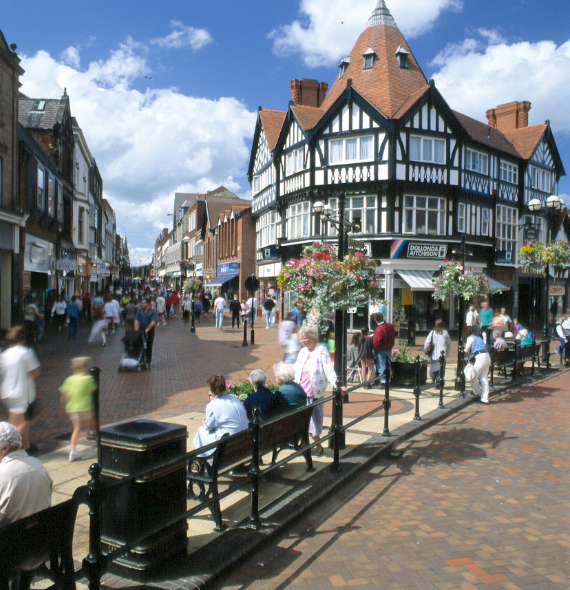 Image of Wrexham town centre. Permission given by David Powell(who took the photos) on behalf of Wrexham County Council